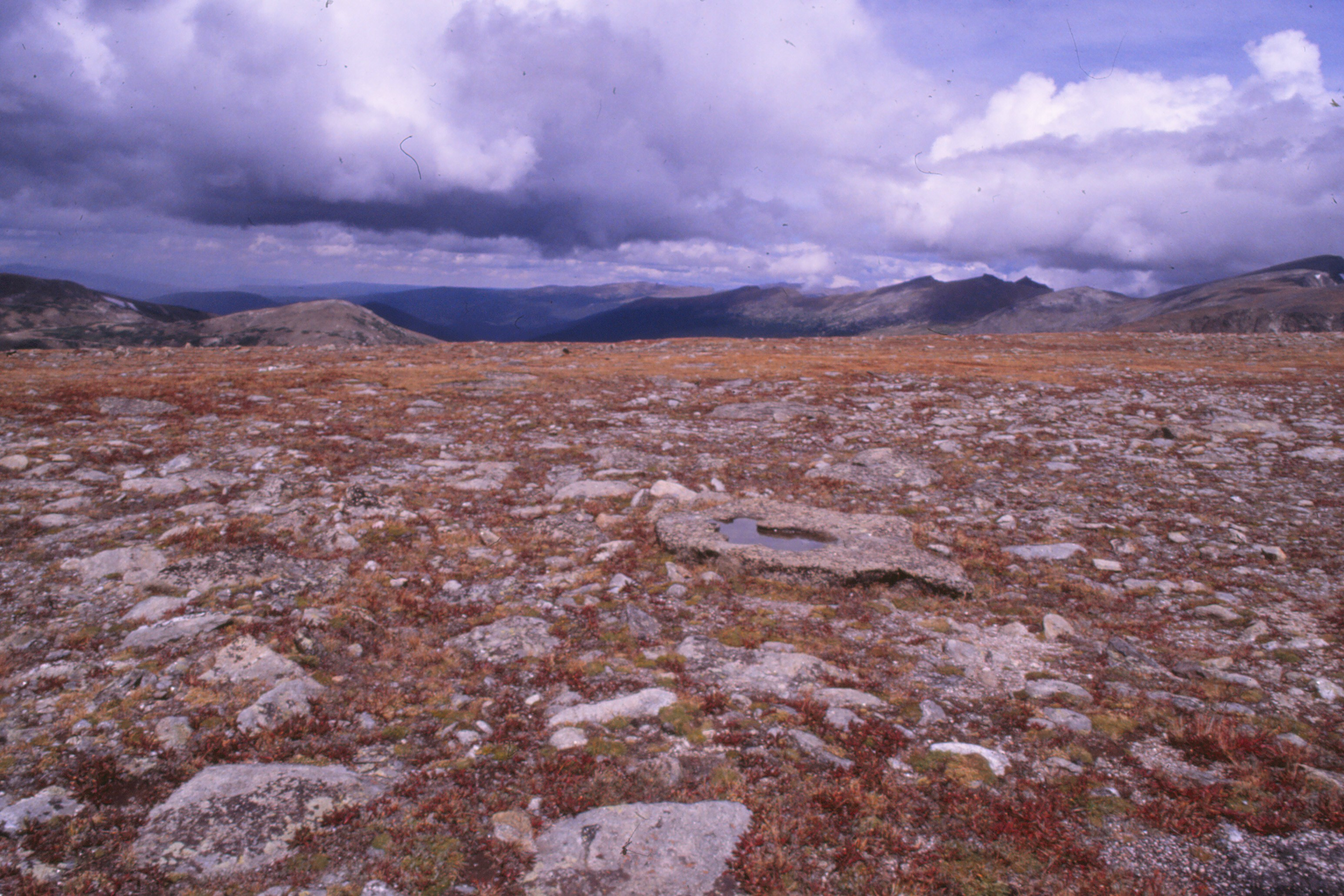 Tundra view well above the treeline along Rocky Mountain National Park's Trail Ridge Road